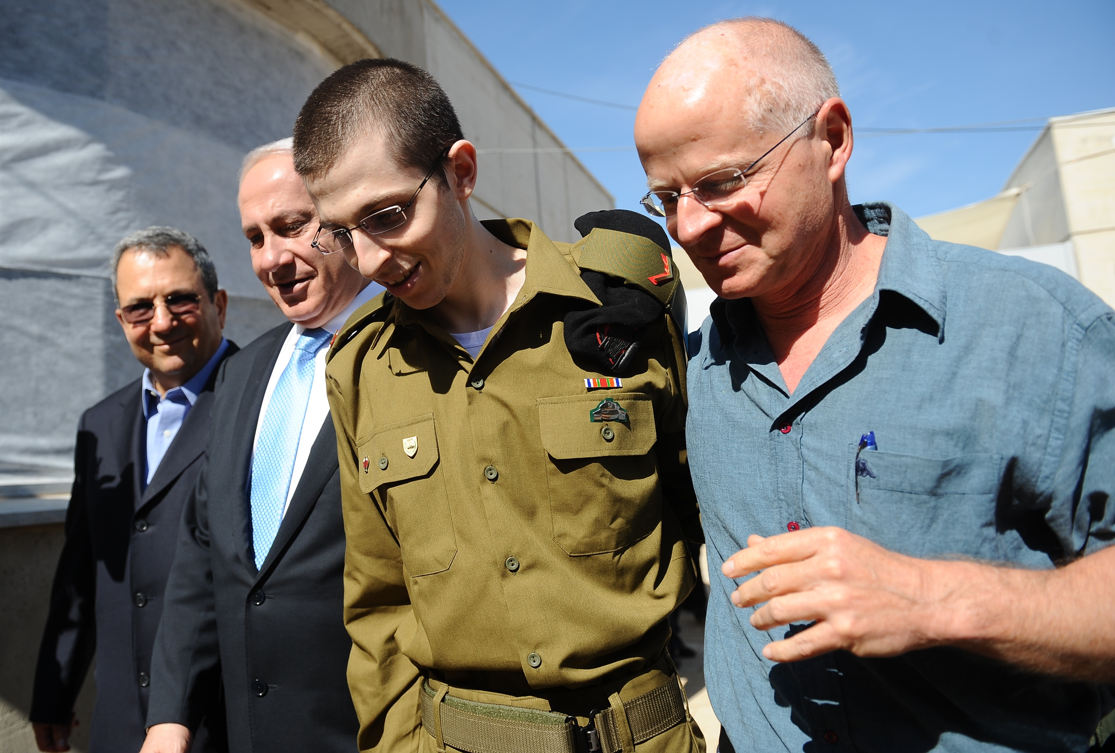 After landing in an IDF base, Gilad Shalit was reunited with his father, Noam.